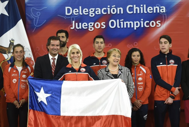 Presidenta Bachelet entregó bandera de Chile a la delegación que representará al país en Río 2016.